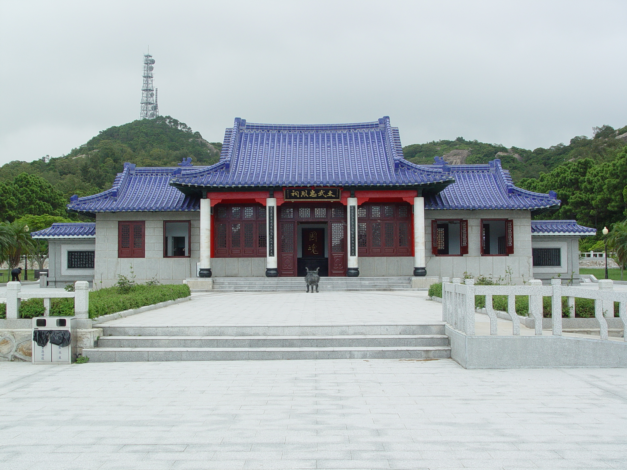 Taiwu Martyrs' Shrine, Kinmen County